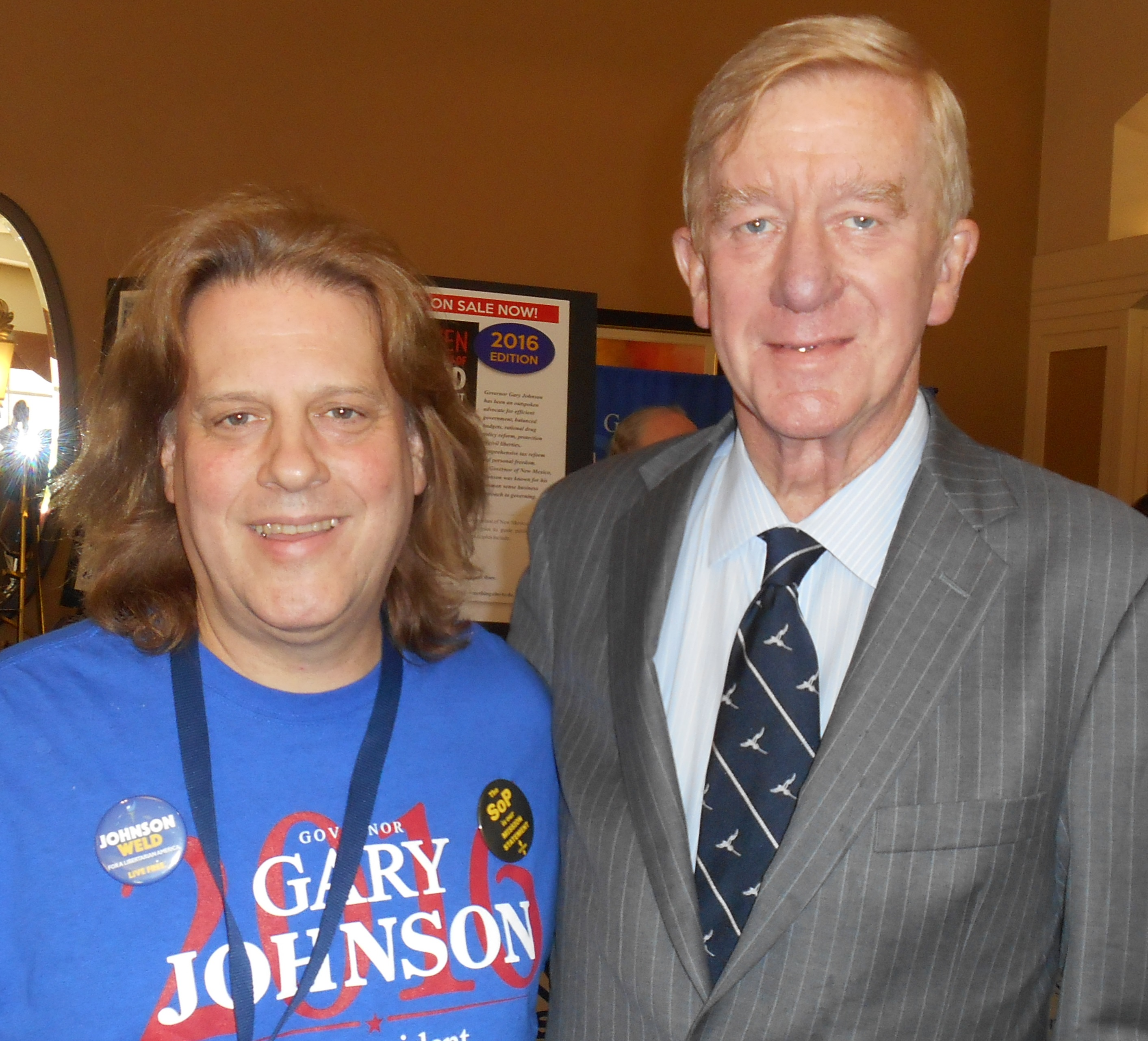 Former Massachusetts Governor Bill Weld (Right) and Michigan Johnson-Weld campaign director Scotty Boman (Left).